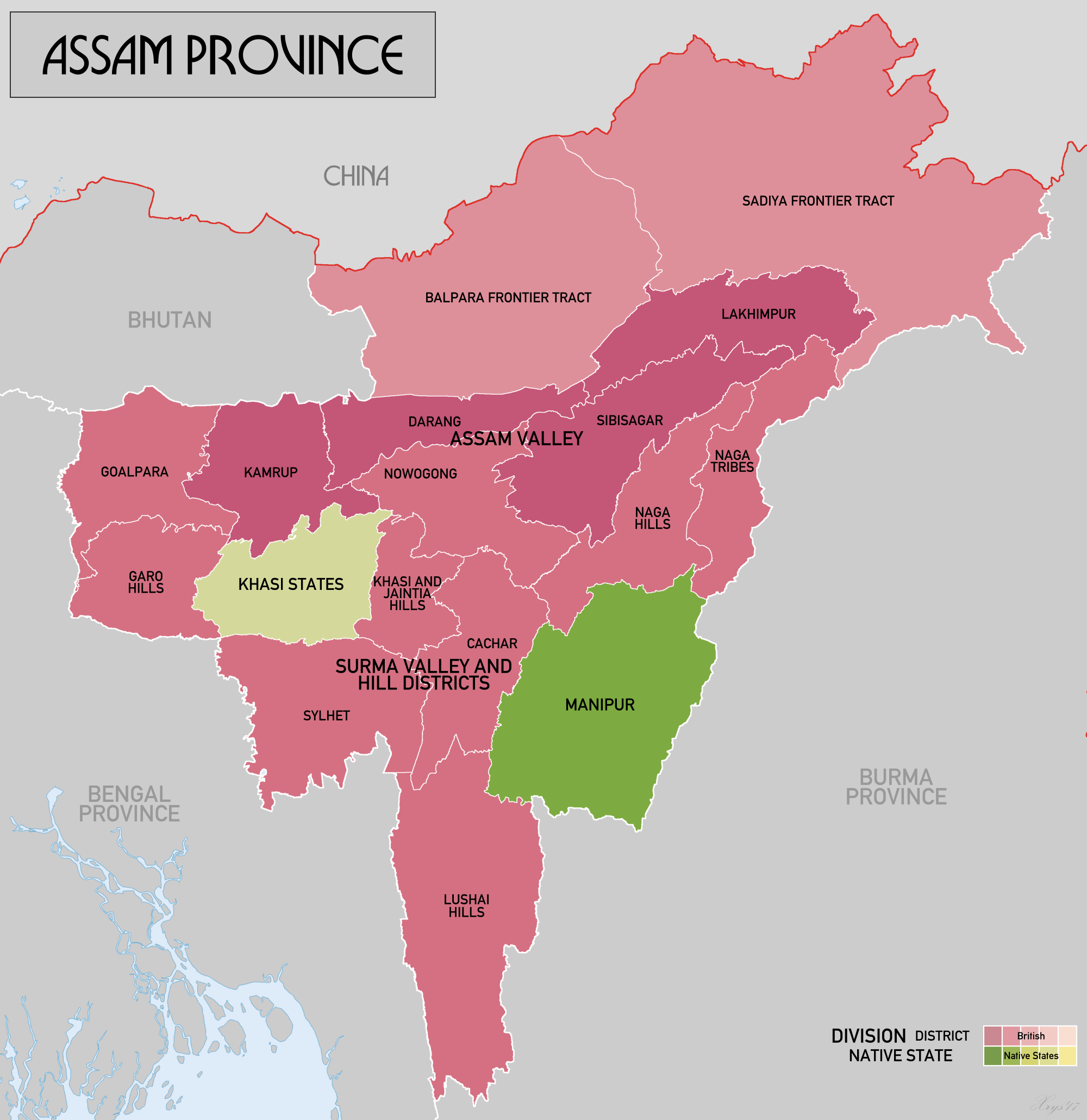 Map of Assam Province in 1936, Source data: Survey of India 1:253k (Perry-Castenada Map Library, Univ of Texas), India 1:1M, Imperial Gazetteer of India 1:4M (Digital South Asia Library, Univ of Chicago).